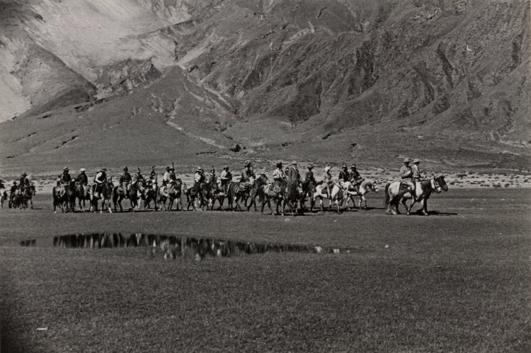 The British Mission party arriving in Lhasa in August 1936 being escorted into the city by an official reception party, which met them a couple of miles outside